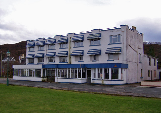 Former Youth Hostel. Possibly still open in Gordon McKinlay's 2007 photograph 506767, the hostel closed that year and has gradually decayed since then. In former days, Kyleakin was important, being at the busy Skye end of the Kyle ferry from the mainland. However, Kyleakin gets far fewer visitors now that most visiting traffic whizzes over the Skye bridge and bypasses the small town.